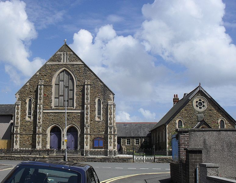 Priory Road Methodist Church, Milford Haven, Wales